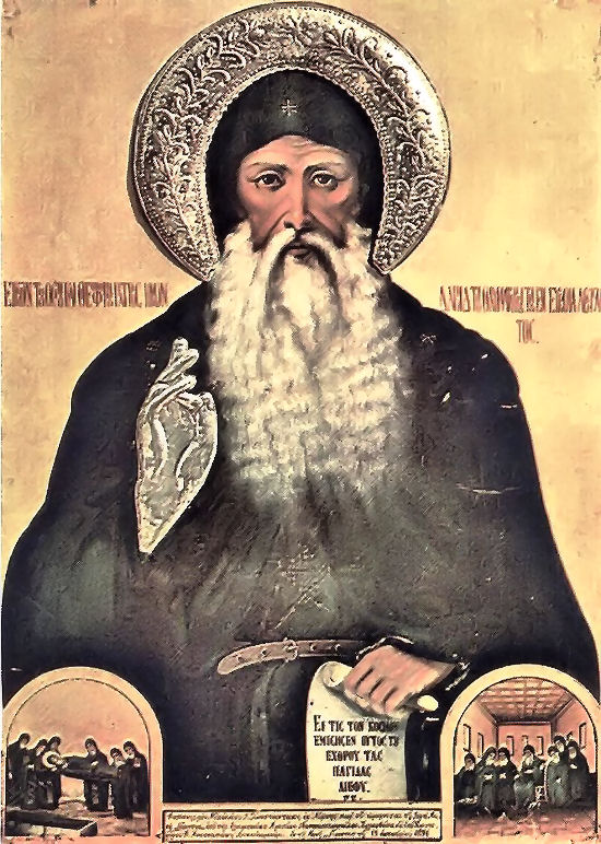 Venerable St David of Euboea (November 1st).